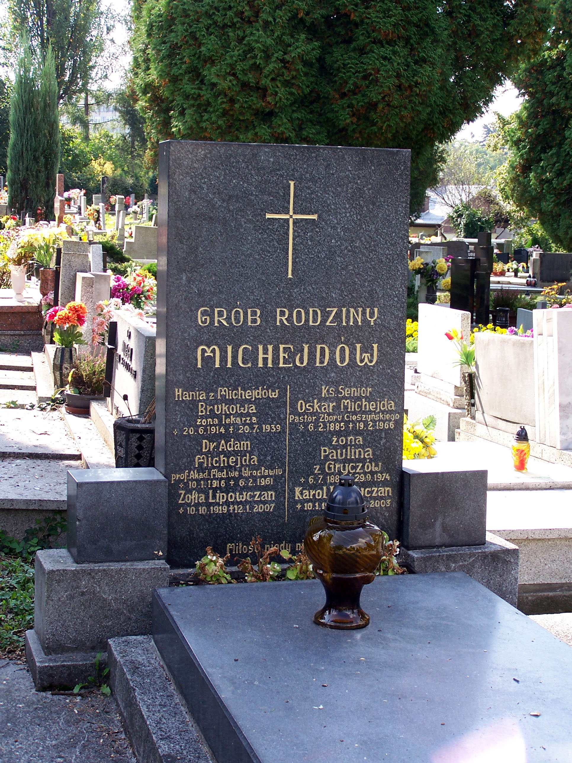 Grave of Pastor Oskar Michejda and other members of the Michejda family at the Protestant cemetery in Cieszyn, Poland